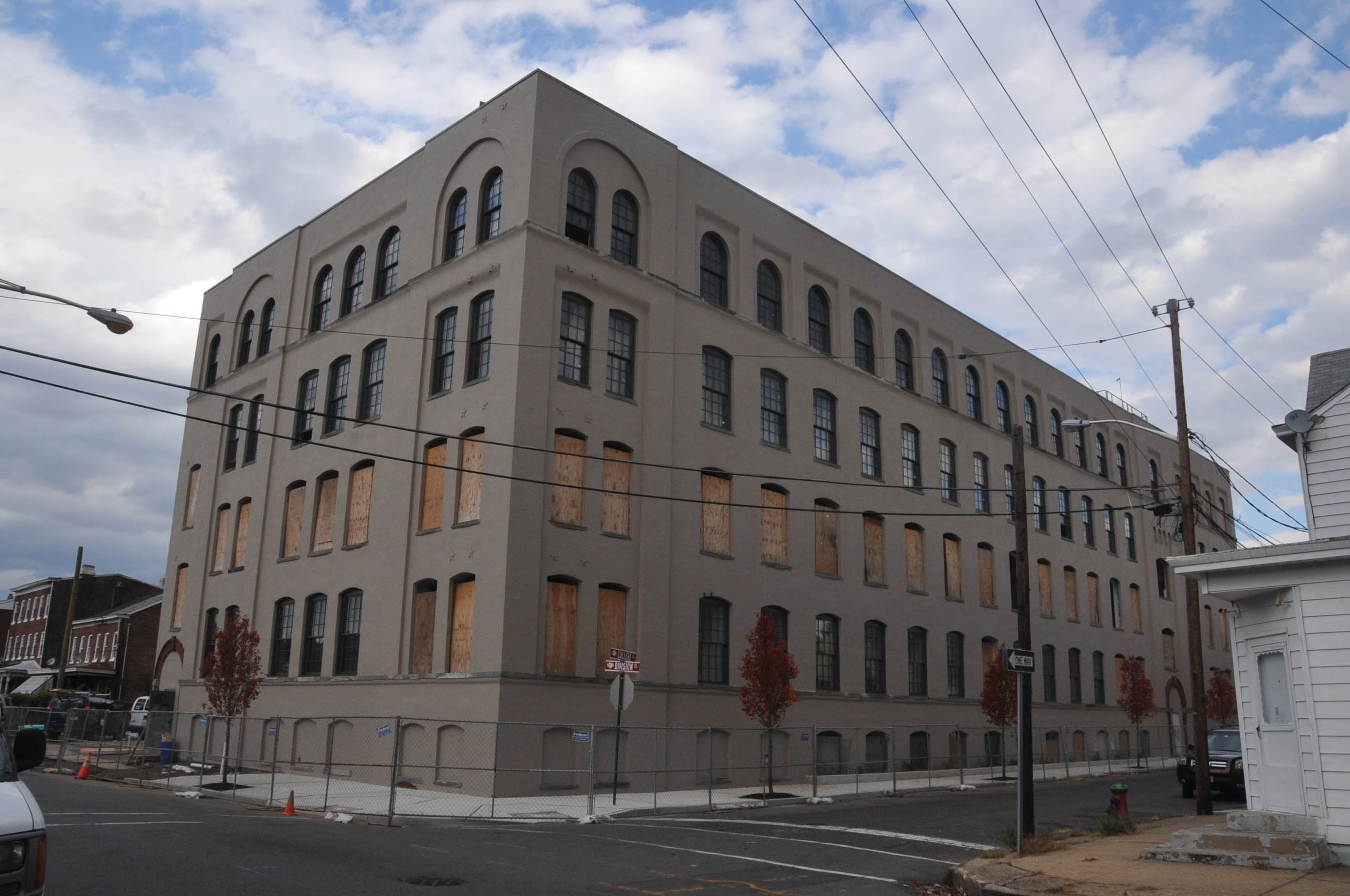 BUILT IN 1902; THIS WAS THE MOST IMPORTANT CIGAR FACTORY IN TRENTON AND PRODUCED HAVANA CIGARS. THERE WAS A PIANO IN THE MAIN WORKROOM WHICH WAS PLAYED TWICE A DAYS FOR ENTERTAIN THE WORKERS. IT IS NOW BEING REHABILITATED AS APARTMENTS KNOWN AS CHAMBERS LOFTS